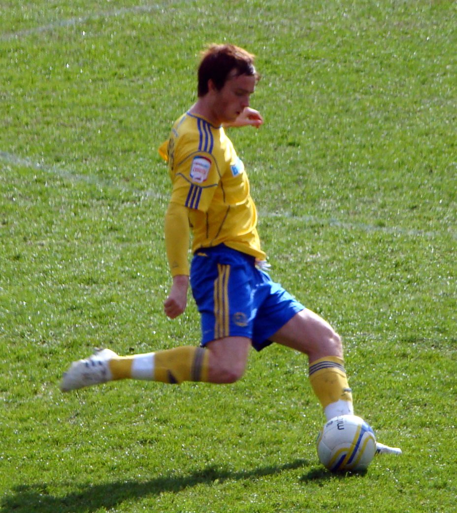 John Brayford kicking the ball during the match on 02/04/11 Cardiff V Derby, Championship, Cardiff City Stadium, Cardiff, Wales